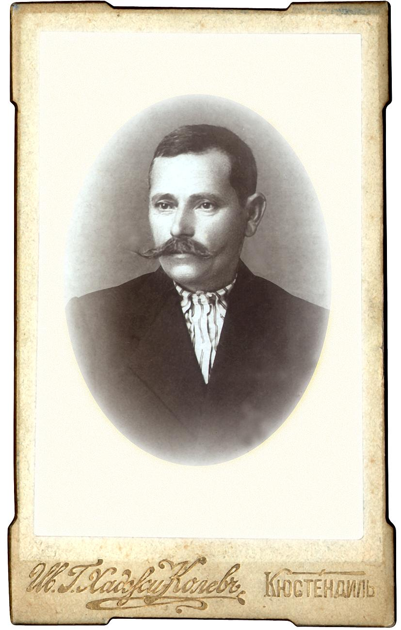 Photo picture in Kyustendil Bulgaria of Andon Stoyanov aka Doncho Sthipyancheto - bulgarian IMORO aka VMORO member, first courier of Gotze Delchev